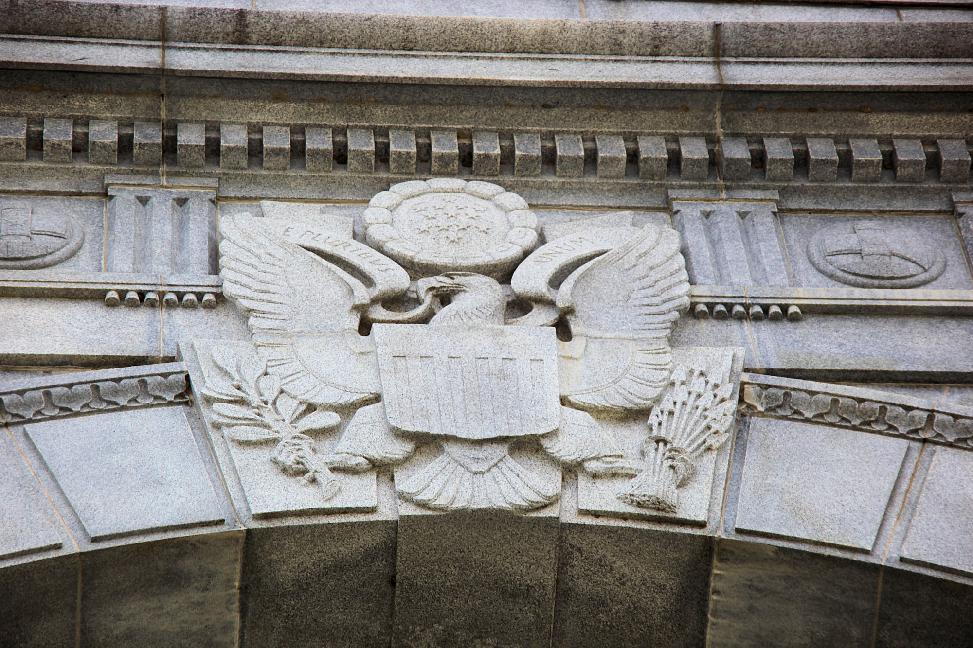 A view of the Women in Military Service for America Memorial. Originally known as the Hemicycle, this ceremonial entrance to Arlington National Cemetery was opened in 1932. Along the Arlington Memorial Bridge and the George Washington Memorial Parkway (then known as the Mount Vernon Memorial Parkway), it was constructed in celebration of the bicentennial of George Washington's birthday. Unfinished, unused, and in disrepair by the early 1980s, it was transformed into the Women in Military Service for America Memorial and opened to the public on October 20, 1997. The Great Seal of the United States of America is carved into the granite keystone at the top of the apse in the front of the Hemicycle.